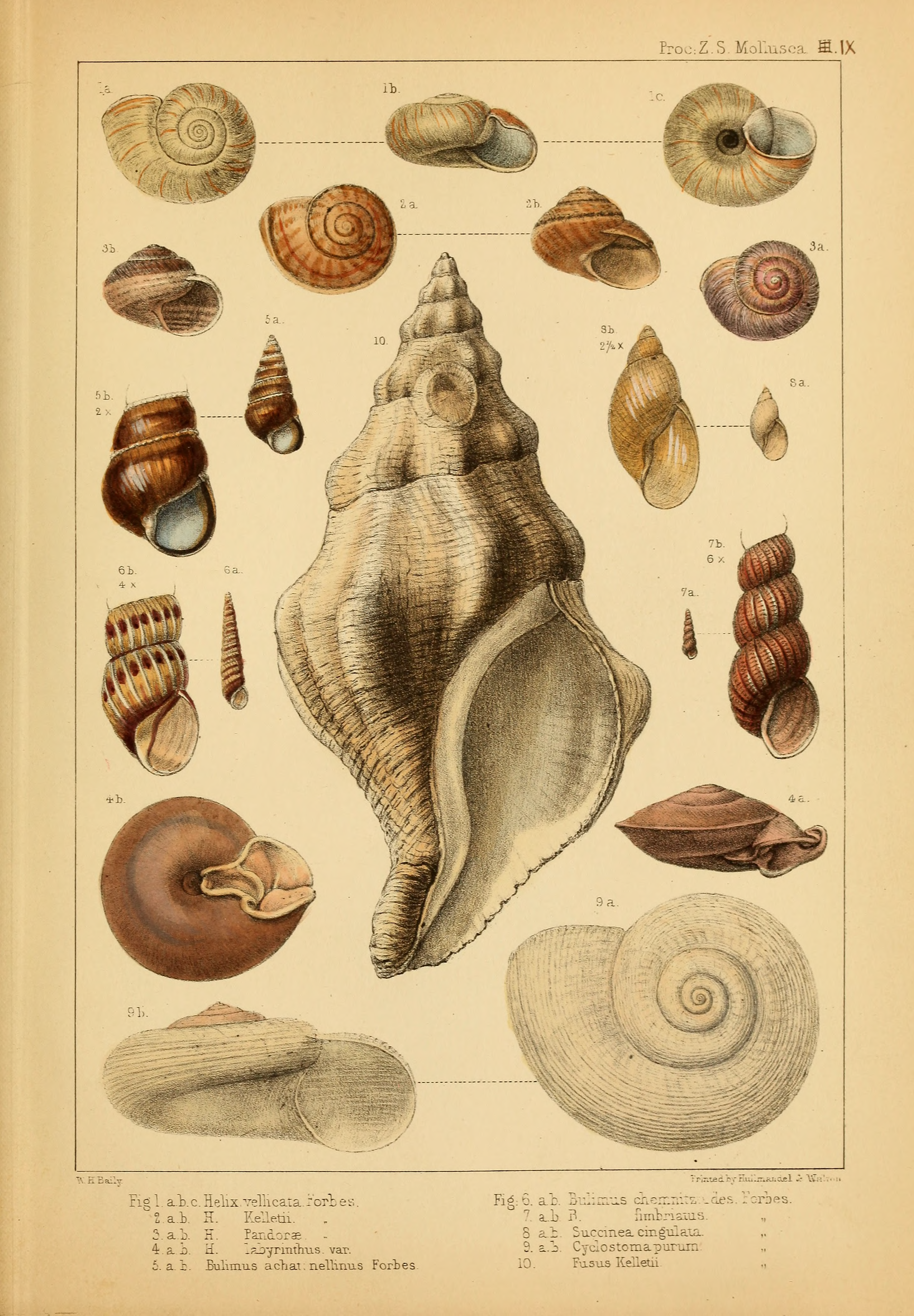 Terrestrial (1-9) and marine (10) snail species from the Herald and Pandora Expedition. 1: Robust Lancetooth, 2: Kellett's Arionta.